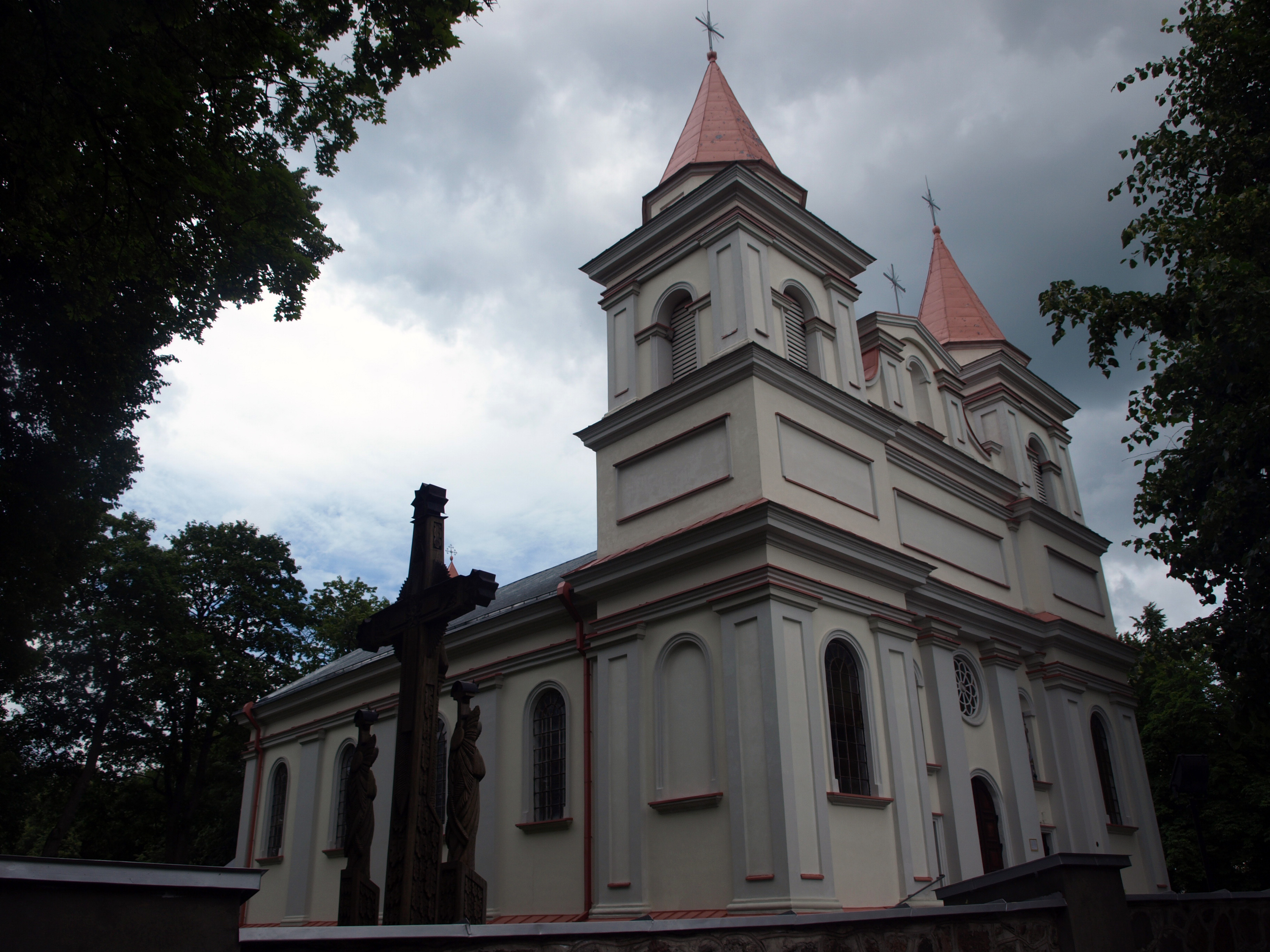 Širvintos church